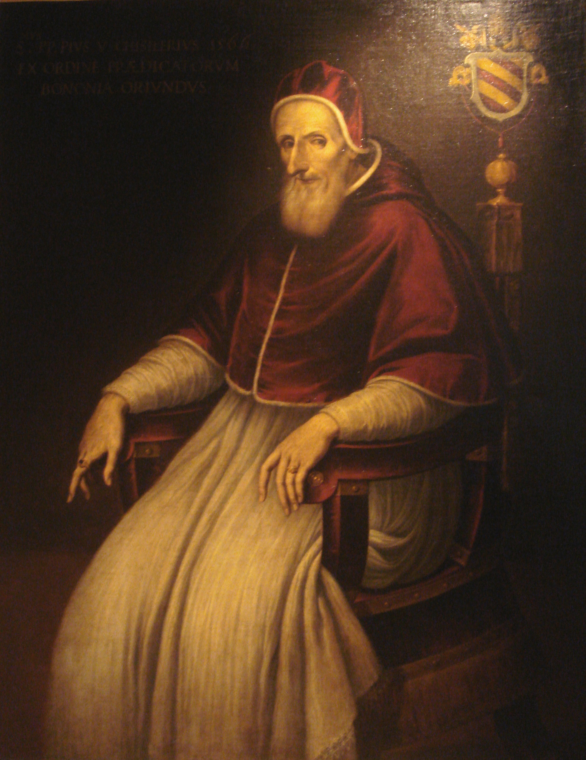 Pope_Pius_V, 16th_century